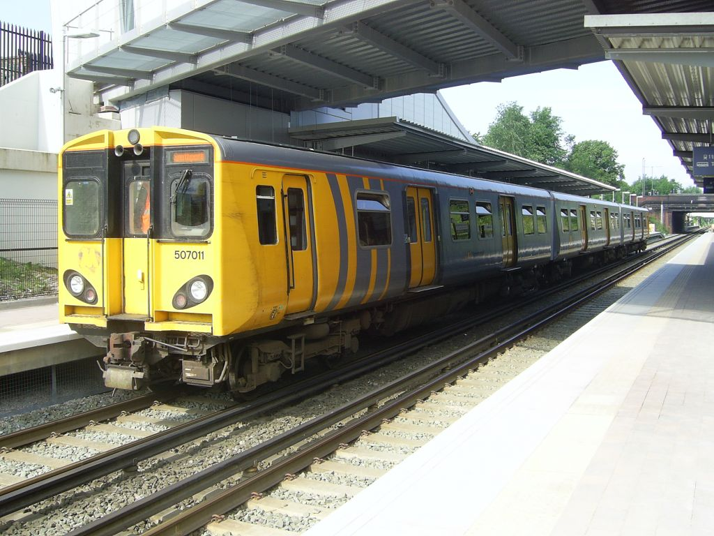 Merseyrail Class 507, no. 507011, calls at Liverpool South Parkway on the 11 June 2006, the day of the station's opening.